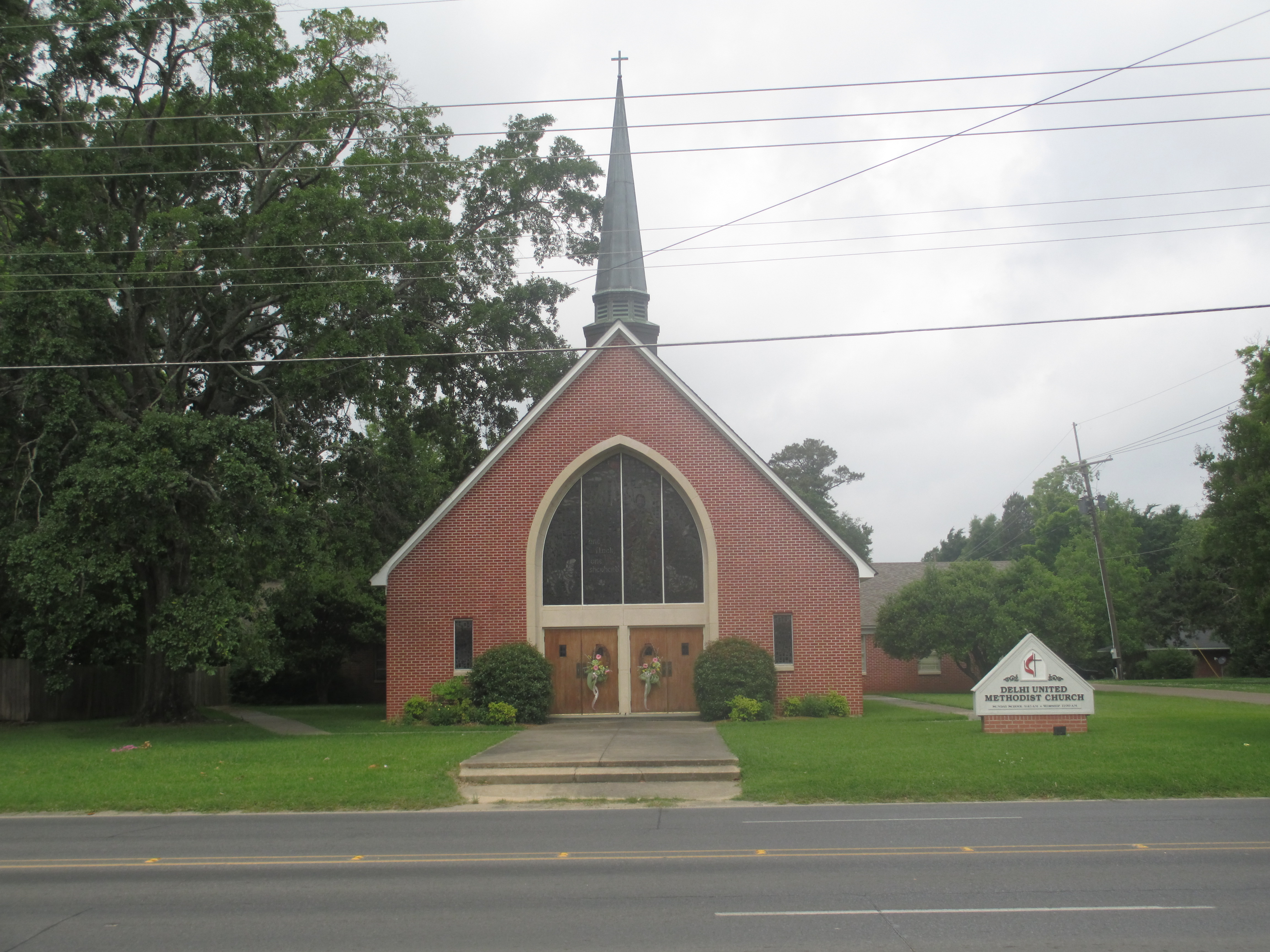 I took photo of Delhi United Methodist Church in Delhi, LA, with Canon camera.